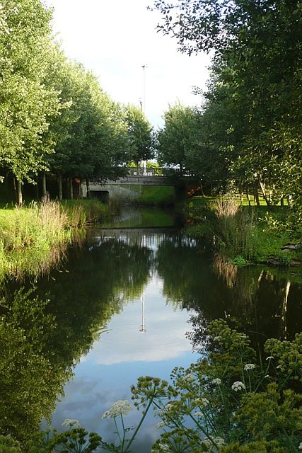 The unseen brook